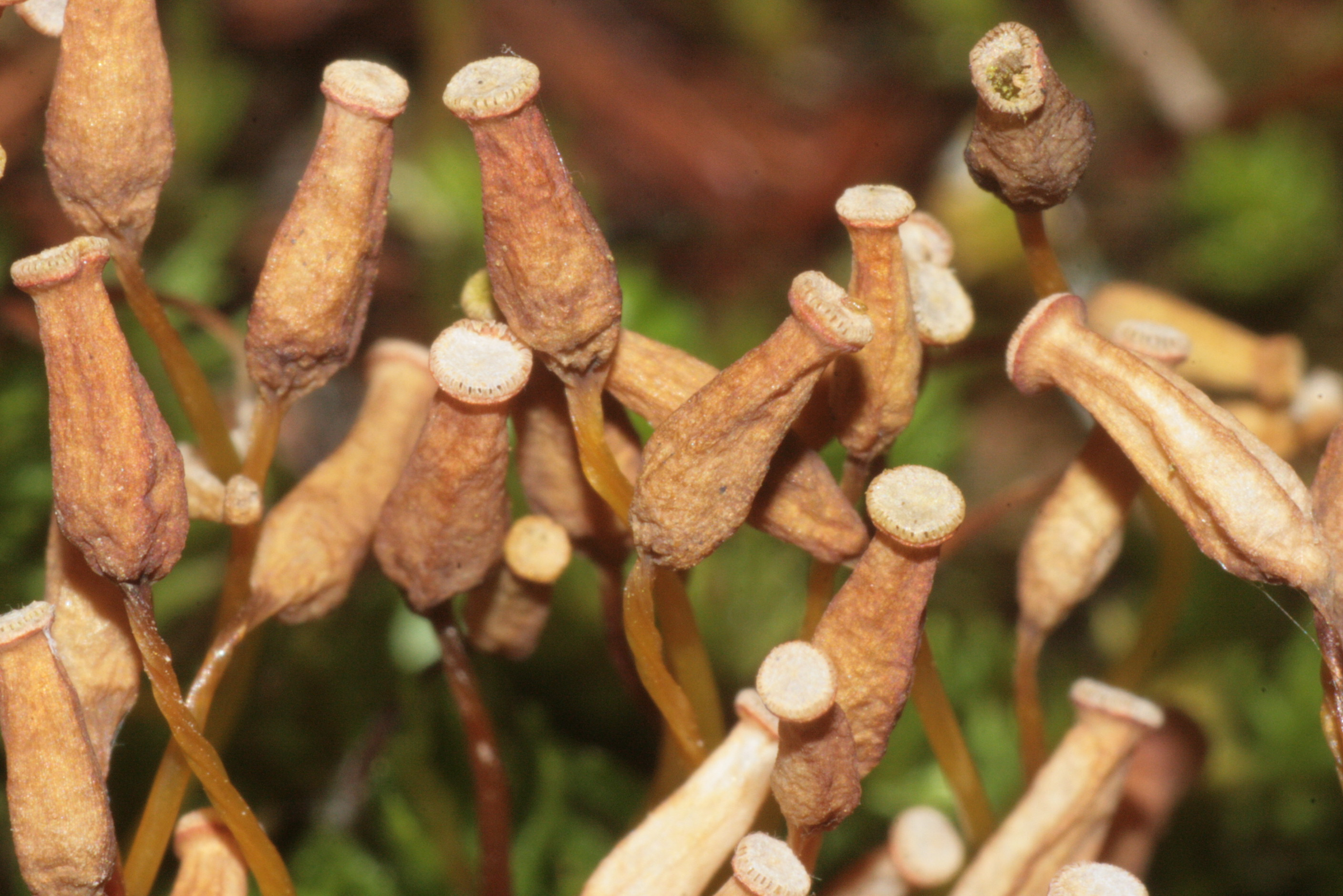 Oligotrichum hercynicum